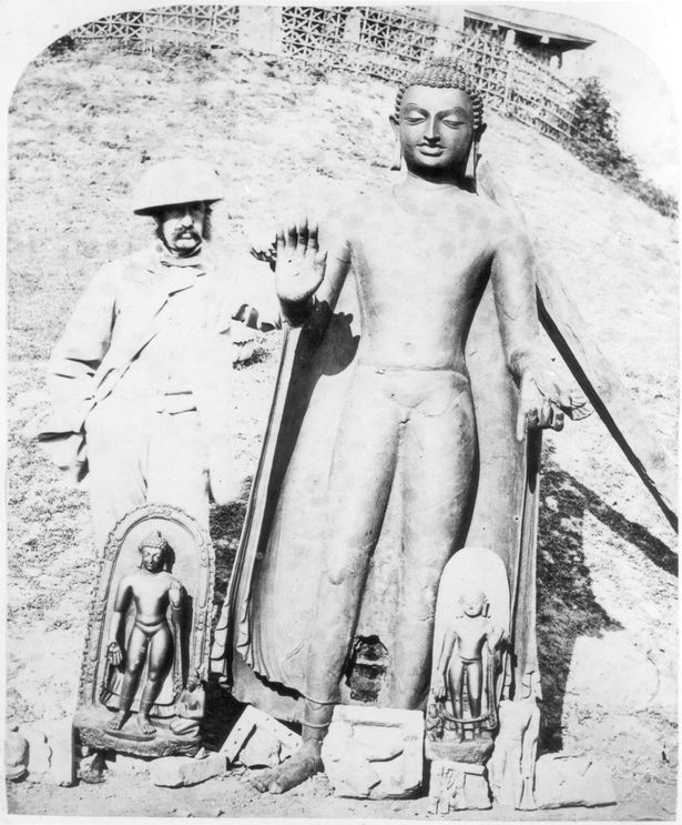 EB Harris with the Sultanganj Buddha. 1861/1862. Photographer unknown